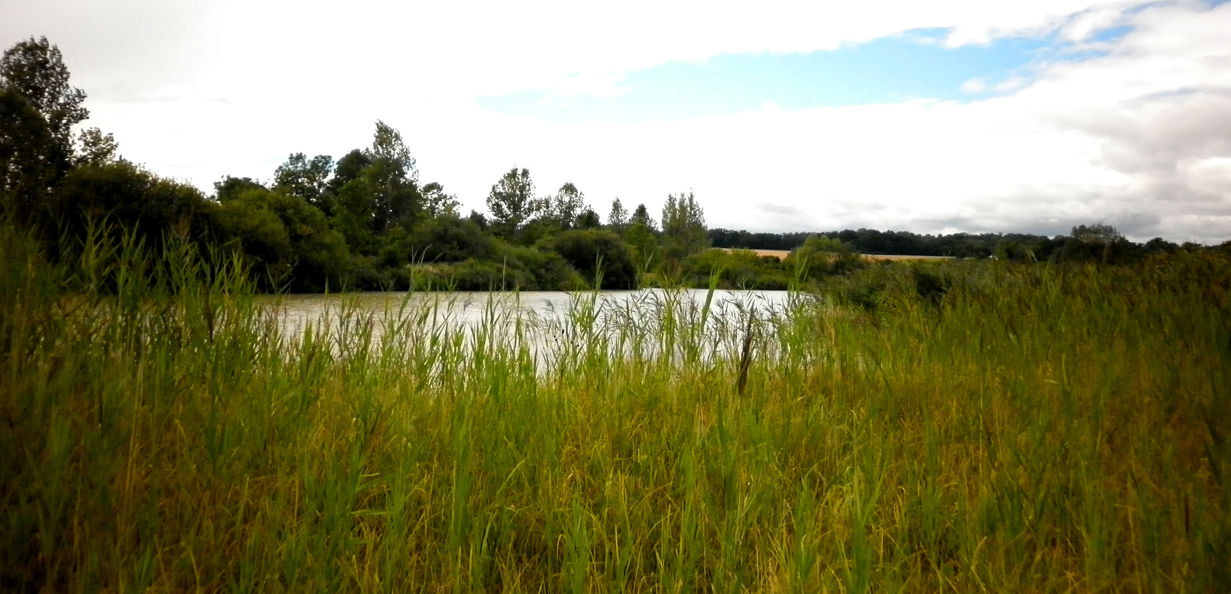 Nature reserve "Dubno" in Náchod District, Czech Republic.